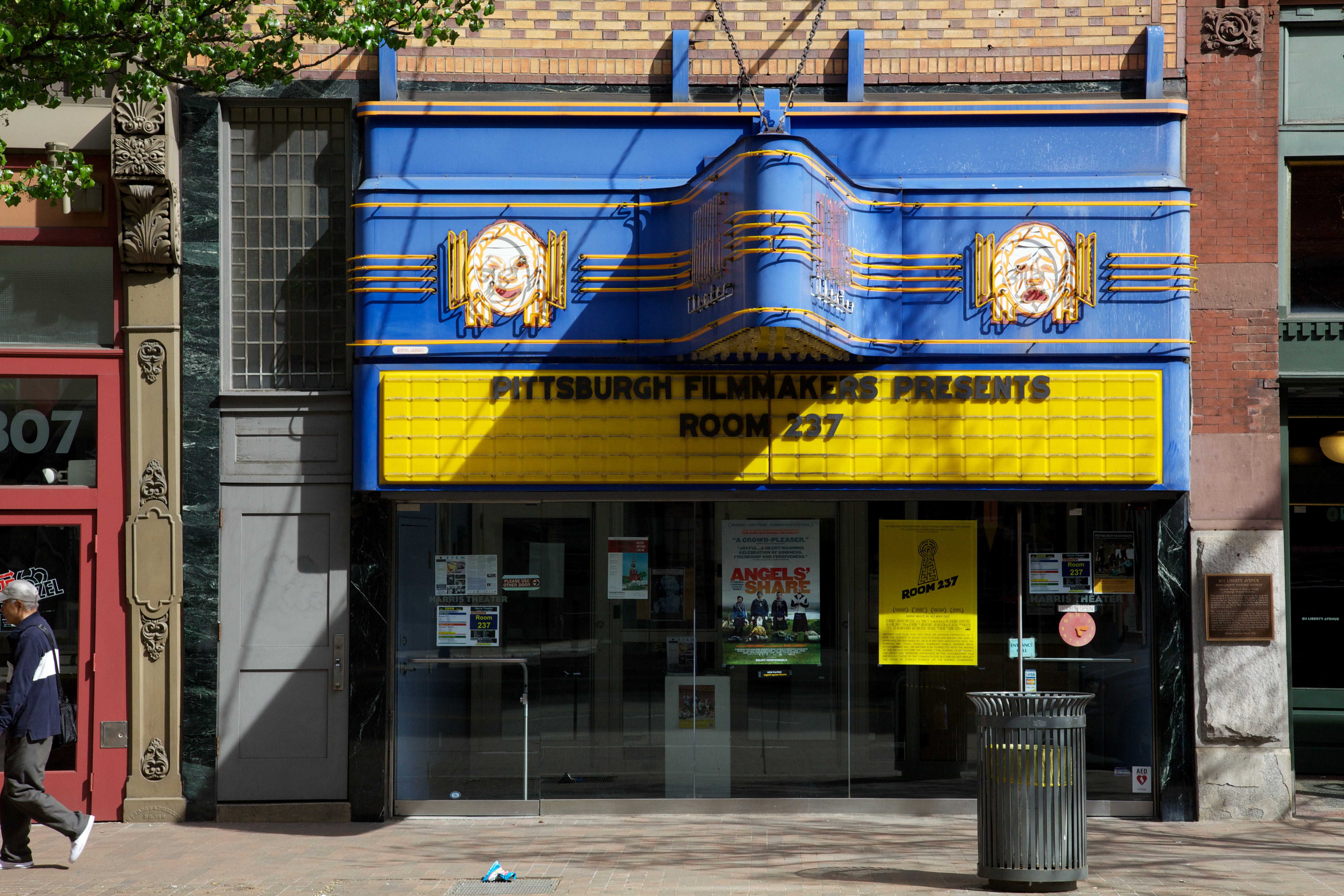 Used by a local theater troupe. Great neon!